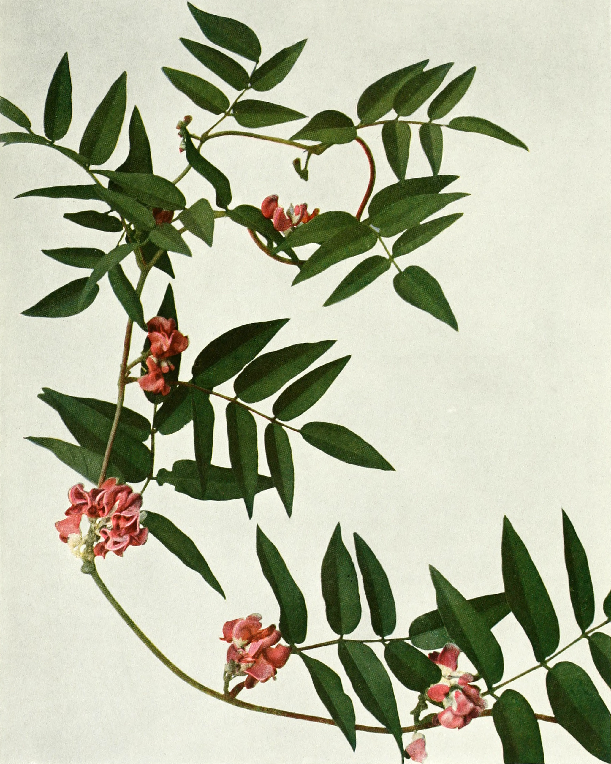 Original Caption: "Groundnut; Wild Bean Glycine apios Linnaeus - Plate 117" Current accepted name: Apios americana Medik. - American groundnut, American potato-bean, Ground-bean, Wild bean